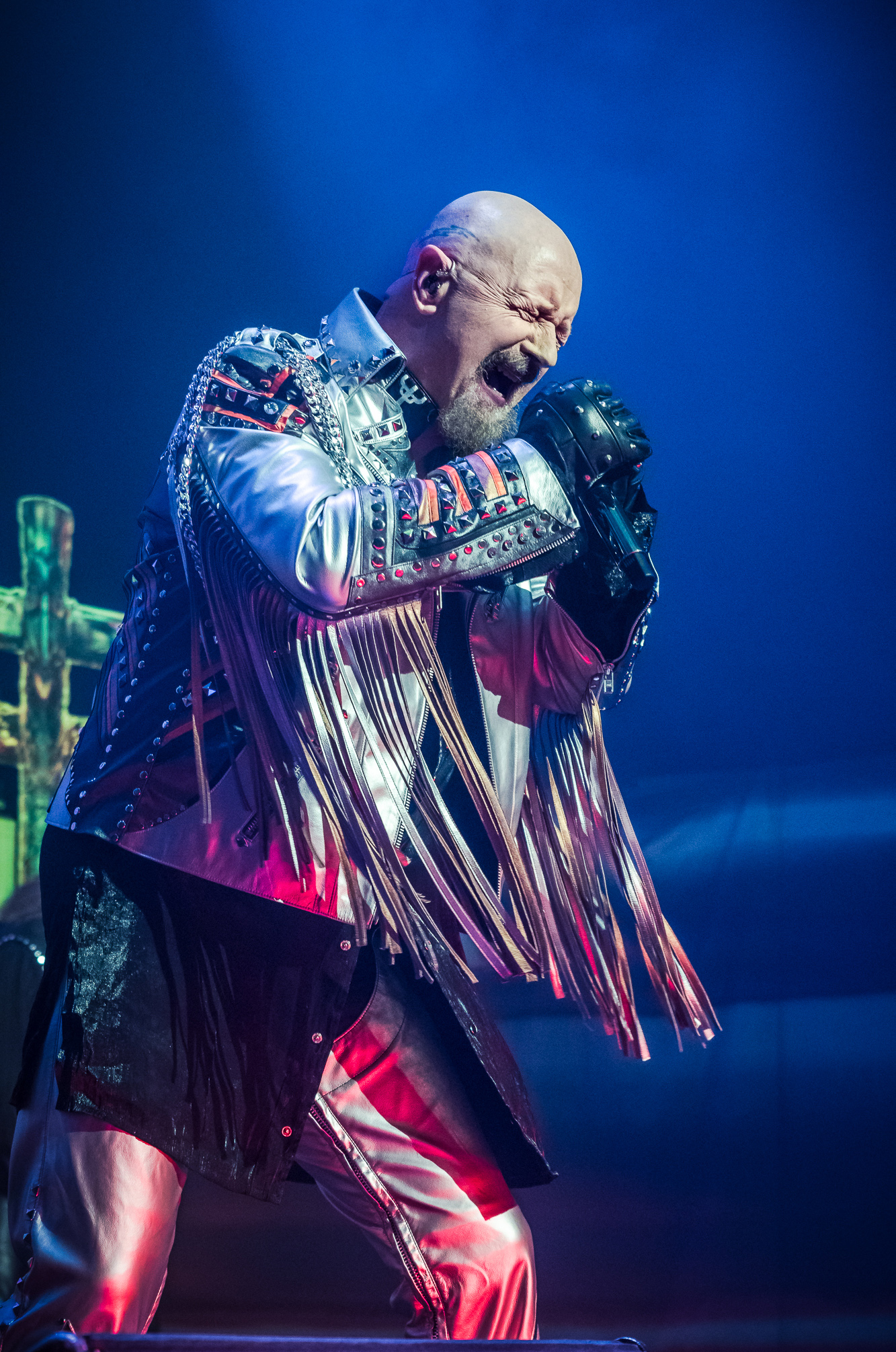 Rob Halford of Judas Priest at The Warfield Theater in San Francisco on the Firepower tour, April 19, 2018